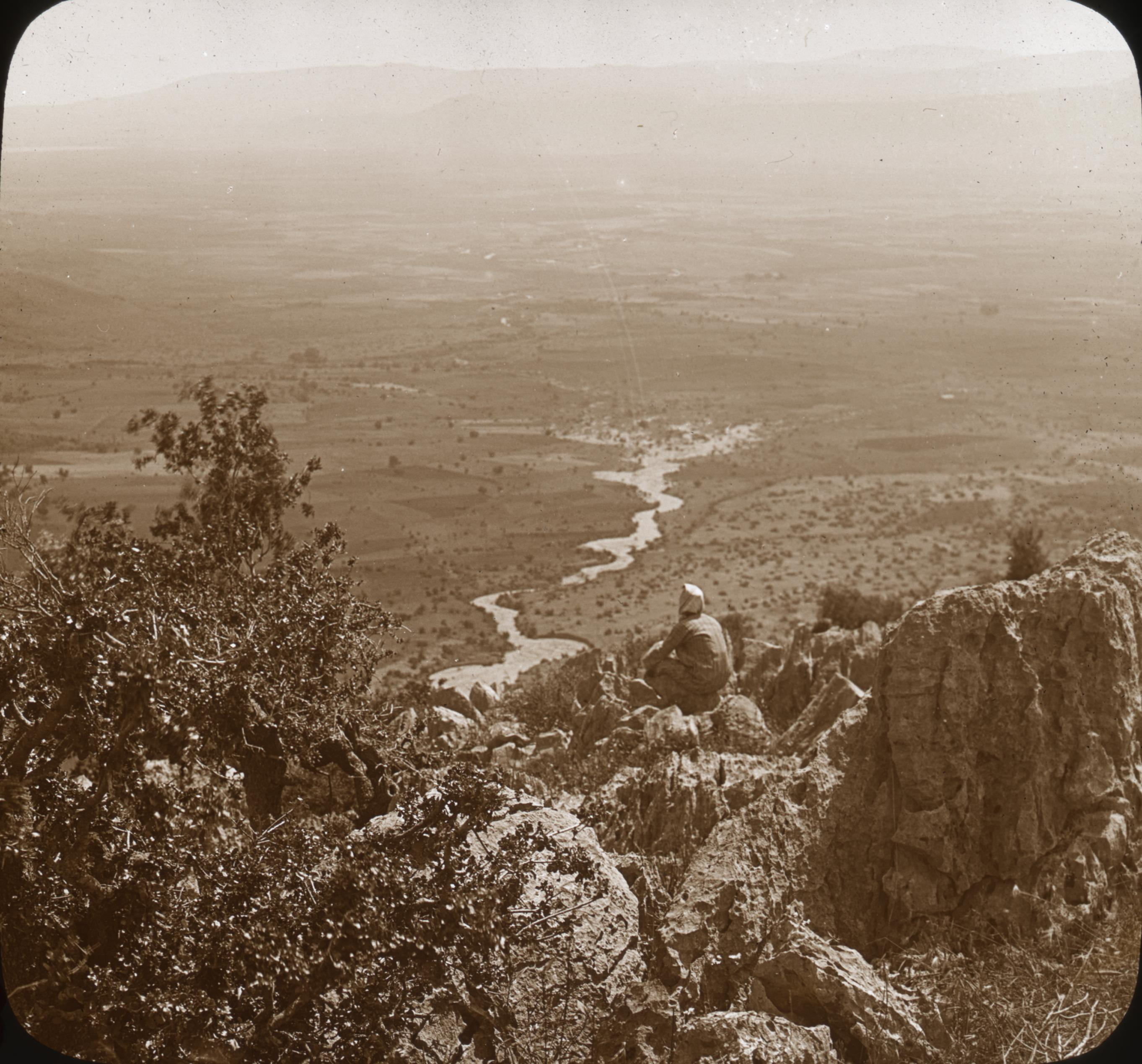 Image Description from historic lecture booklet: "From one of the southern foothills of Hermon we look across the upper Jordan plain, and can see the river winding its way toward Lake Merom. On one of these lower hills of the lofty mountain took place that great even in the earthly life of Christ - the Transfiguration - which has forever made this a sacred mountain. One night our Lord climbed these steep mountain walls and was praying, while his three chosen disciples were sleeping. Awaking from their slumber, they saw that a great change had come over their Master's face and form. He had become dazzlingly white and ineffably glorious beaming forth a more than earthly splendor. Beside him stood the prophets of the past, Moses and Elijah; while from the radiant cloud above sounded a voice 'This is my beloved Son; hear ye Him.' it is fitting that the loftiest height in all the land should be associated with this scene in the life of Jesus Christ." Original Collection: Visual Instruction Department Lantern Slides Item Number: P217:set 013 003 You can find this image by searching for the item number by clicking here. Want more? You can find more digital resources online. We're happy for you to share this digital image within the spirit of The Commons; however, certain restrictions on high quality reproductions of the original physical version may apply. To read more about what “no known restrictions” means, please visit the Special Collections & Archives website, or contact staff at the OSU Special Collections & Archives Research Center for details.